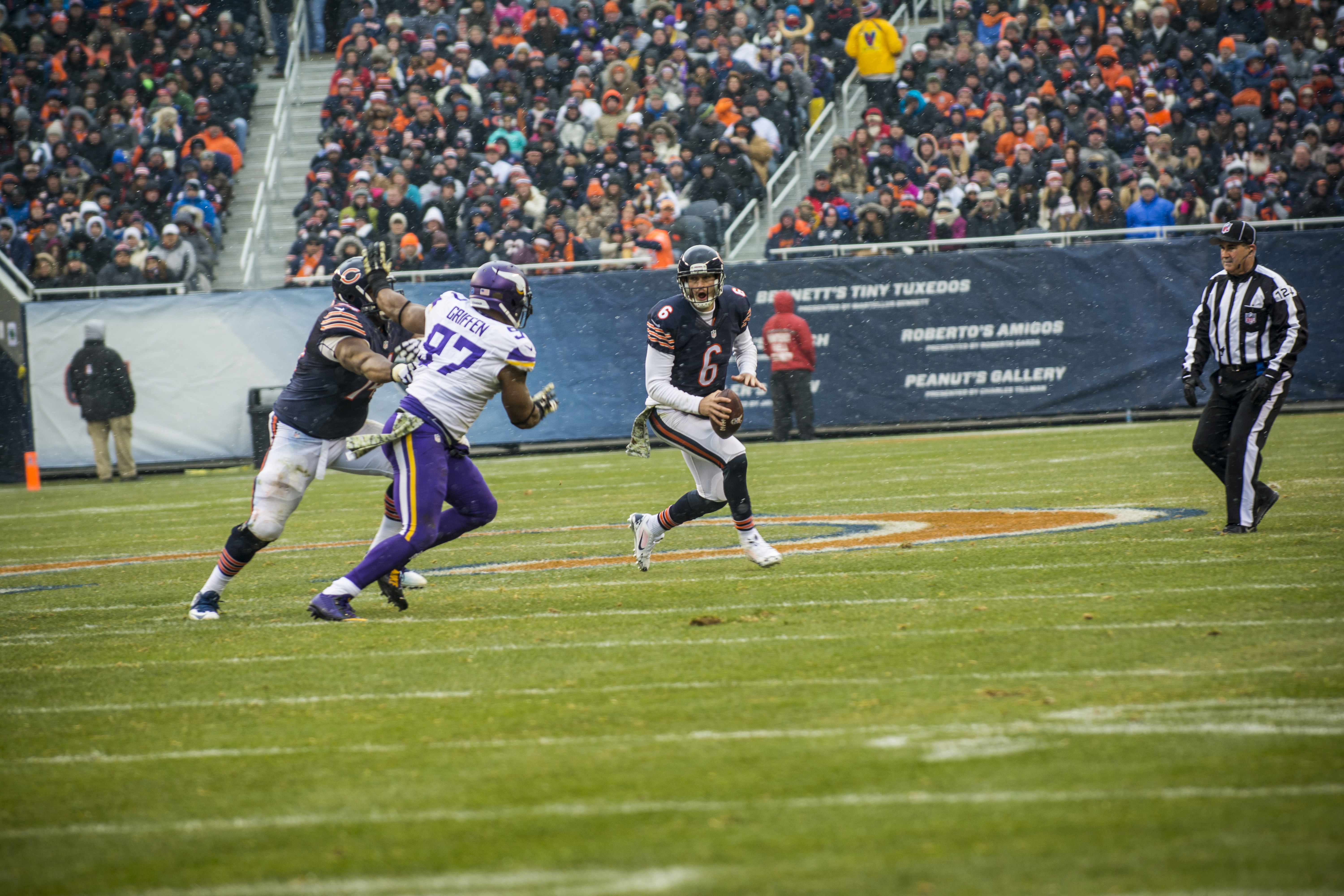 Minnesota Vikings defensive end Everson Griffen while rushes Chicago Bears quarterback Jay Cutler